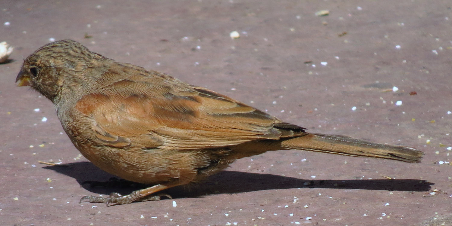 House Bunting (Emberiza sahari), juveneil, Marrakech, Morocco